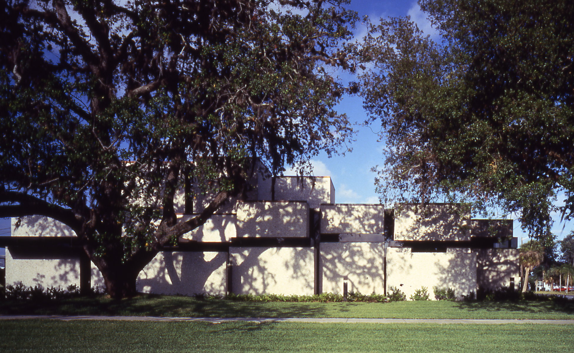 Medical offices designed by John Howey in St. Petersburg, Florida